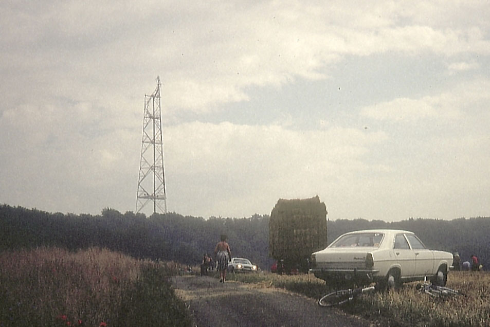 Dudelange TV antenna after 1981 crash